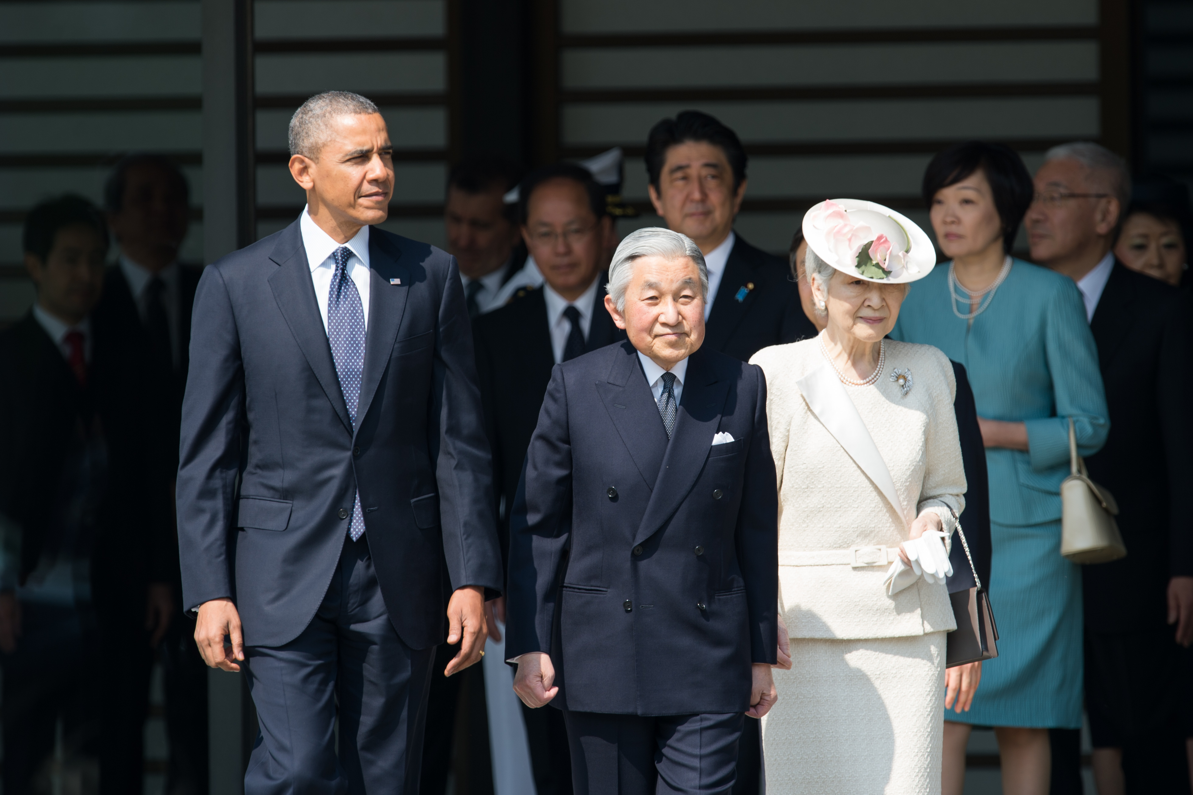 Barack Obama, President, met Emperor Akihito and Empress Michiko with Shinzō Abe, Prime Minister, and Akie Abe, Shinzō's wife, at the Tokyo Imperial Palace in Chiyoda Ward, Tōkyō Metropolis on April 24, 2014.